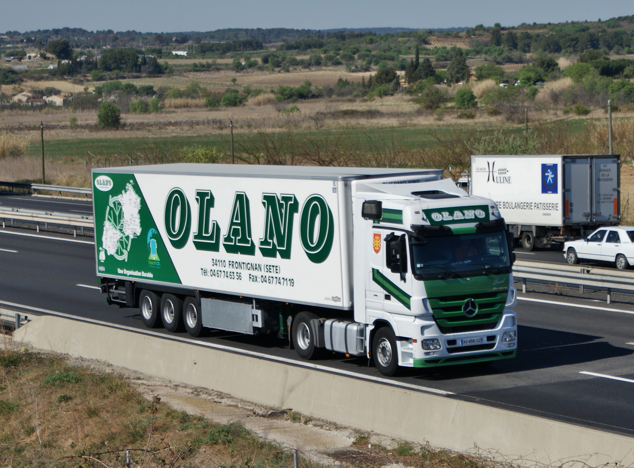 Olano Mercedes-Benz